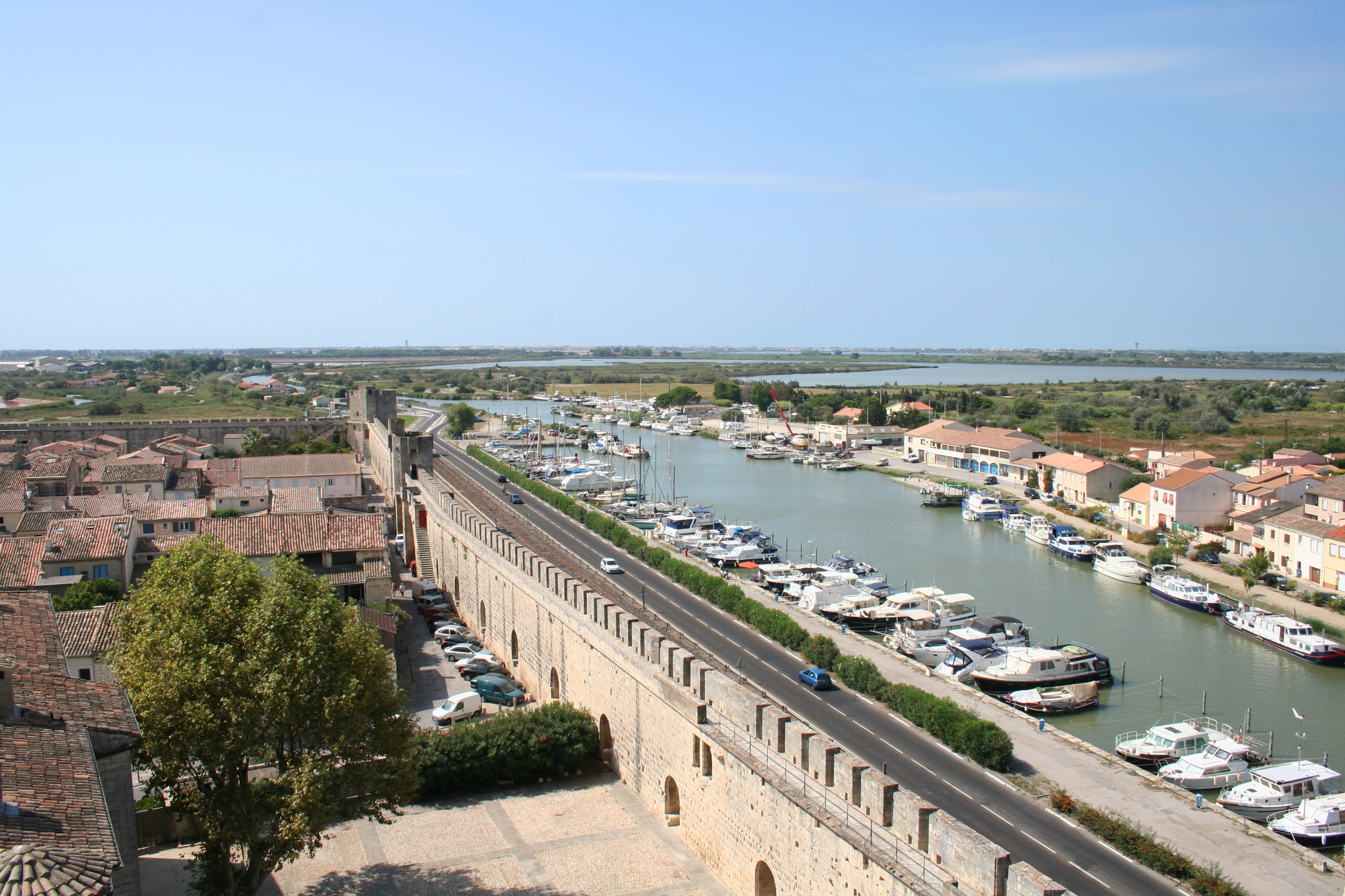 Aigues Mortes - City Walls: Western wall from Tour de Constance